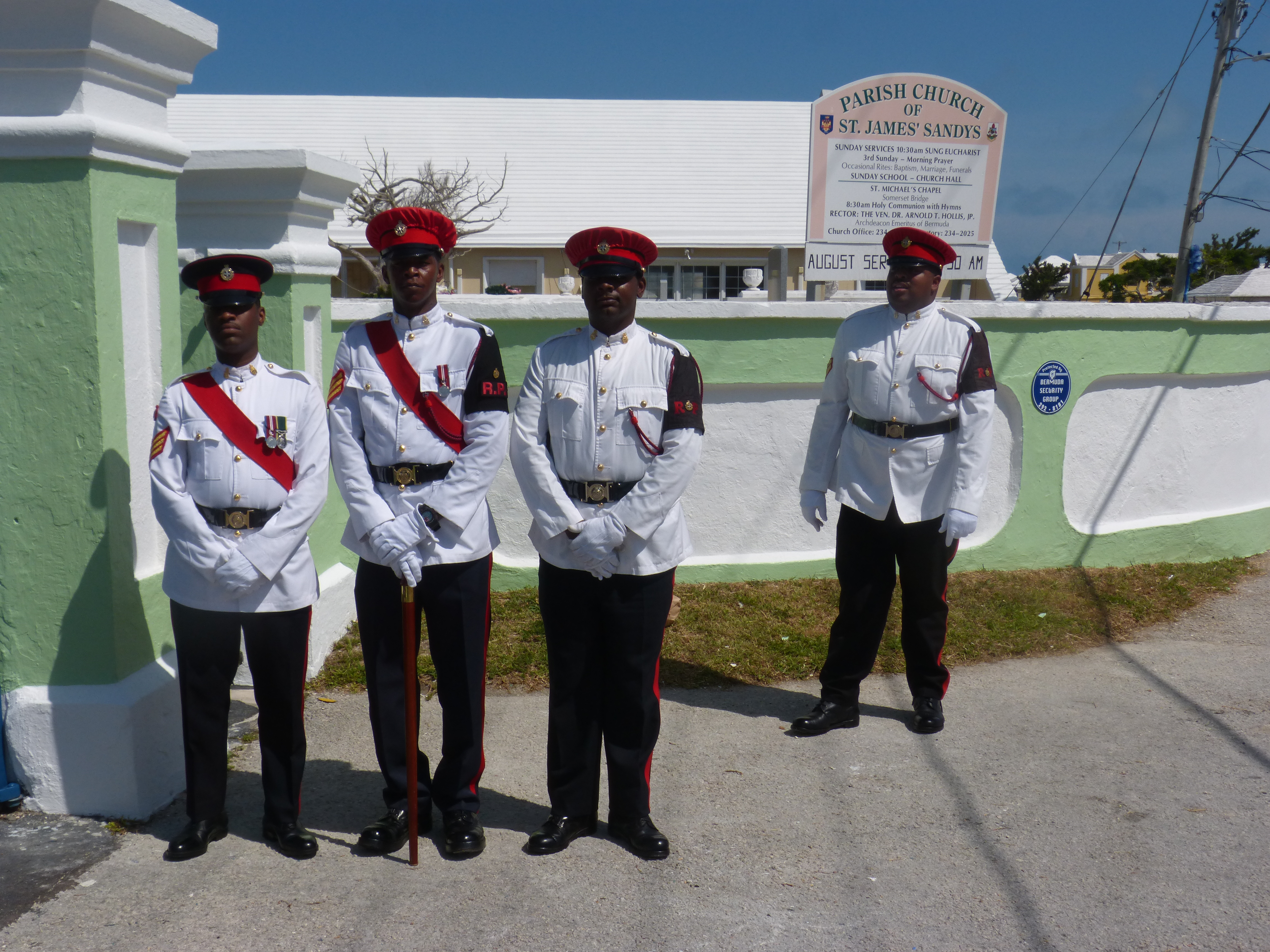 Soldiers of the Royal Bermuda Regiment at St. James' Church (the Church of England parish church for Sandys Parish, Bermuda) on Somerset Island on Tuesday, the 9th of August, 2016, for the funeral of Lance Corporal Steven Pitts-Wade.[1]